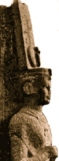 Queen of Meroe (Cairo Museum)